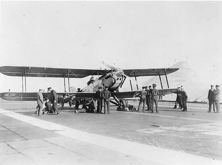 HMS Furious (British Aircraft Carrier, 1917-1948) Fairey III-F aircraft on the flight deck, with Royal Navy and Royal Air Force personnel standing by, circa the late 1920s or early 1930s. Gibraltar is visible in the right background. U.S. Naval Historical Center Photograph.